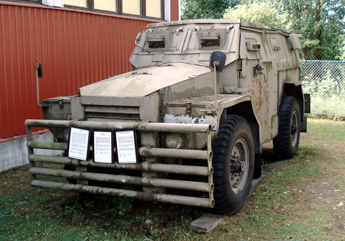 British Humber Pig APC, developed in the early 1950s. This example has the appearance it used to have when serving with the British armed forces in Northern Ireland in the 1970s. Displayed in Finnish Tank Museum (Panssarimuseo) in Parola. Photo taken on July 14, 2006. Source: Photo by me, User:Balcer.